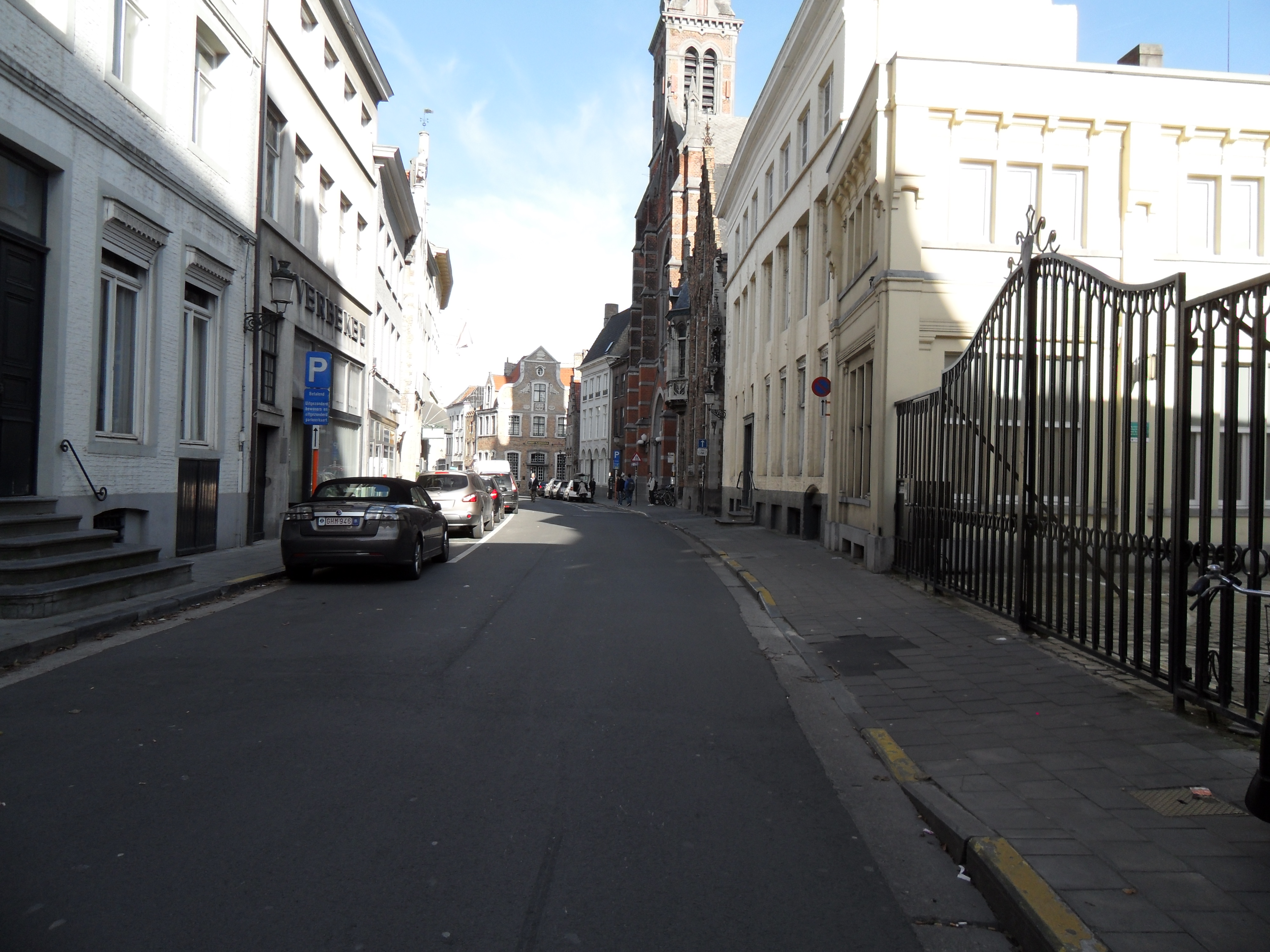 Vlamingstraat in Bruges